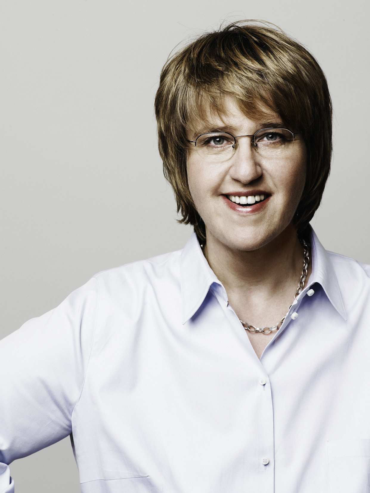 The austrian politician Ruperta Lichtenecker, member of the Green Party of Austria